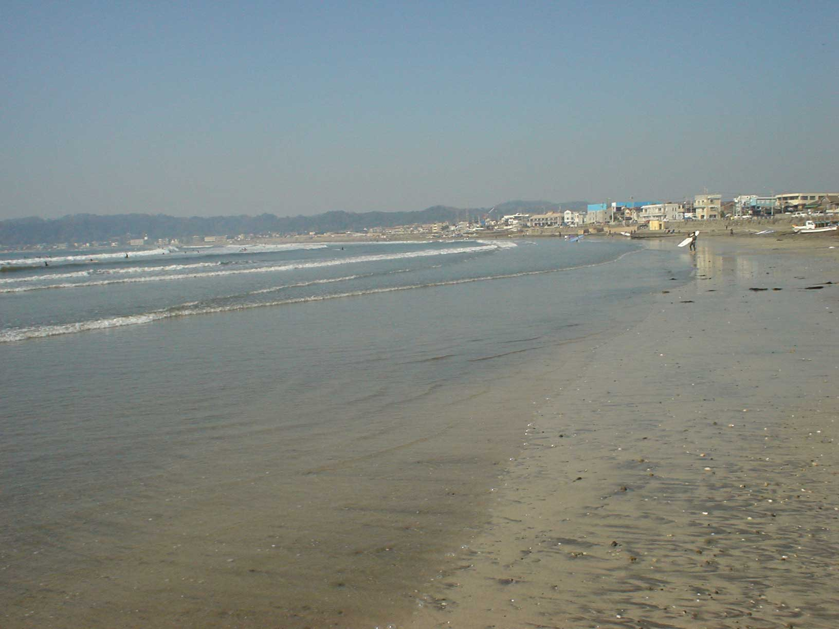 Yuigahama Beach on a February morning